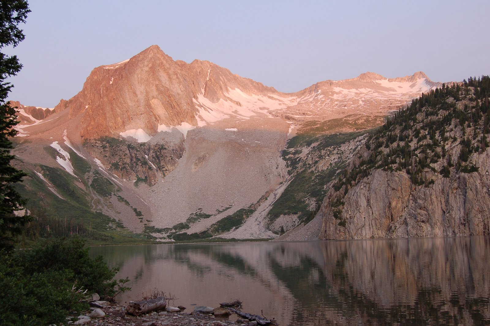 Hagerman Peak (13,841 ft.) on the left. At far right are the twin summits of Snowmass Mountain (14,092 ft.)